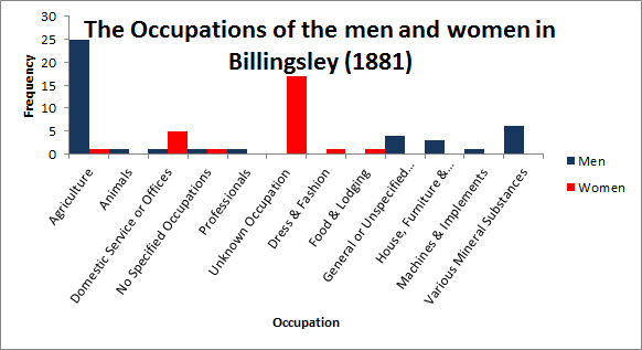 A graph to show the occupations of men and women in Billingsley in 1881